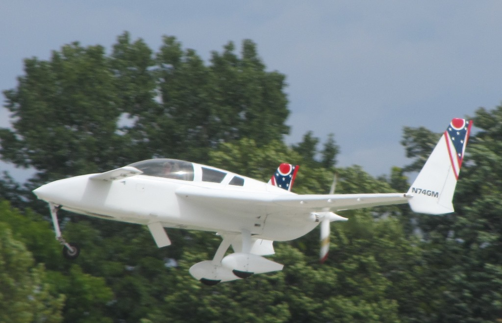 Cozy Takeoff